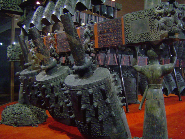 Bianzhong of Marquis Yi of Zeng at the Hubei Provincial Museum in Wuhan, China.